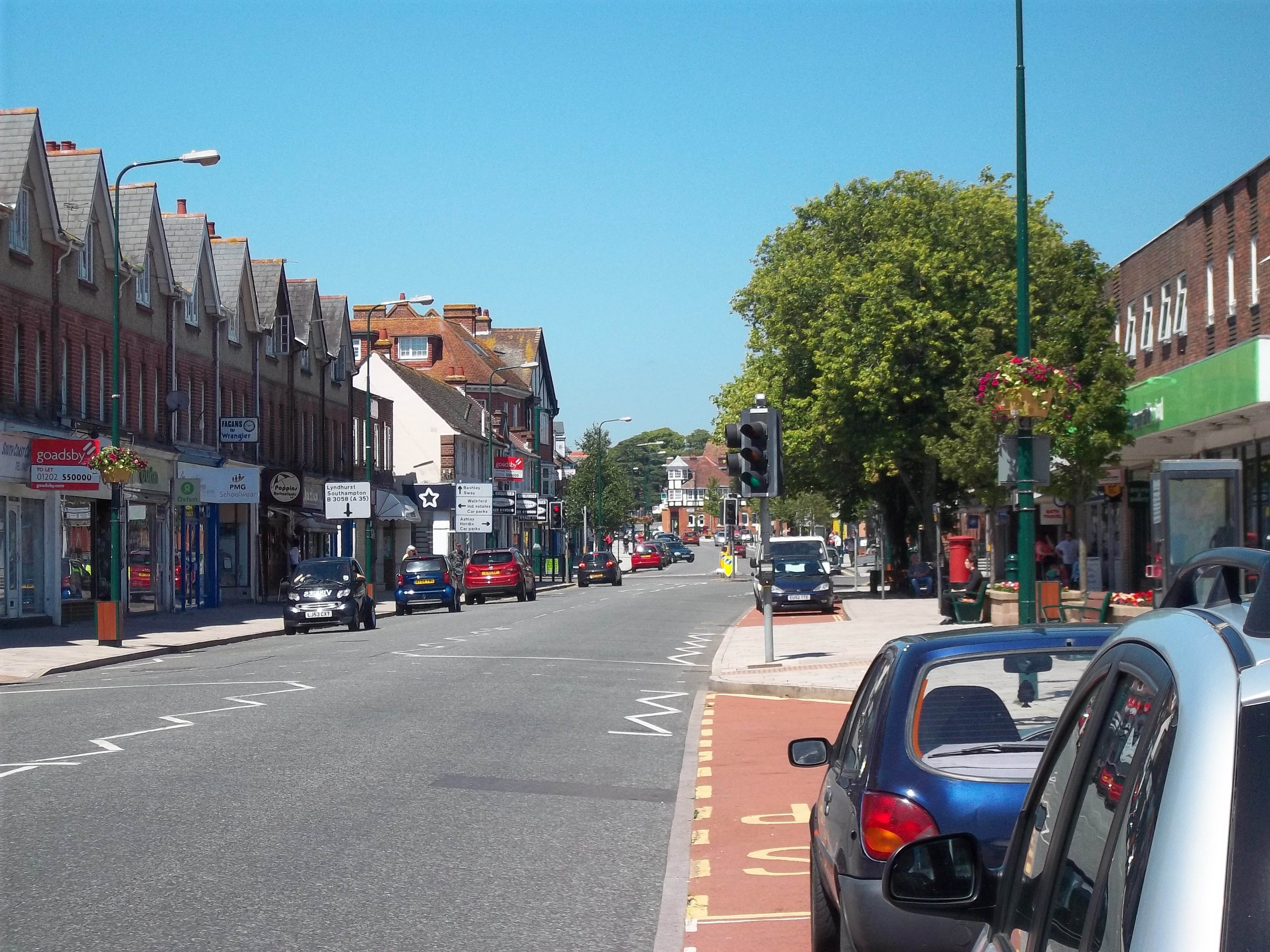 View looking north along Station Road towards the traffic lights at the crossroads in New Milton. The photo was taken on a Sunday afternoon - the traffic is usually much heavier on other days. The large trees on the right are Plane trees.